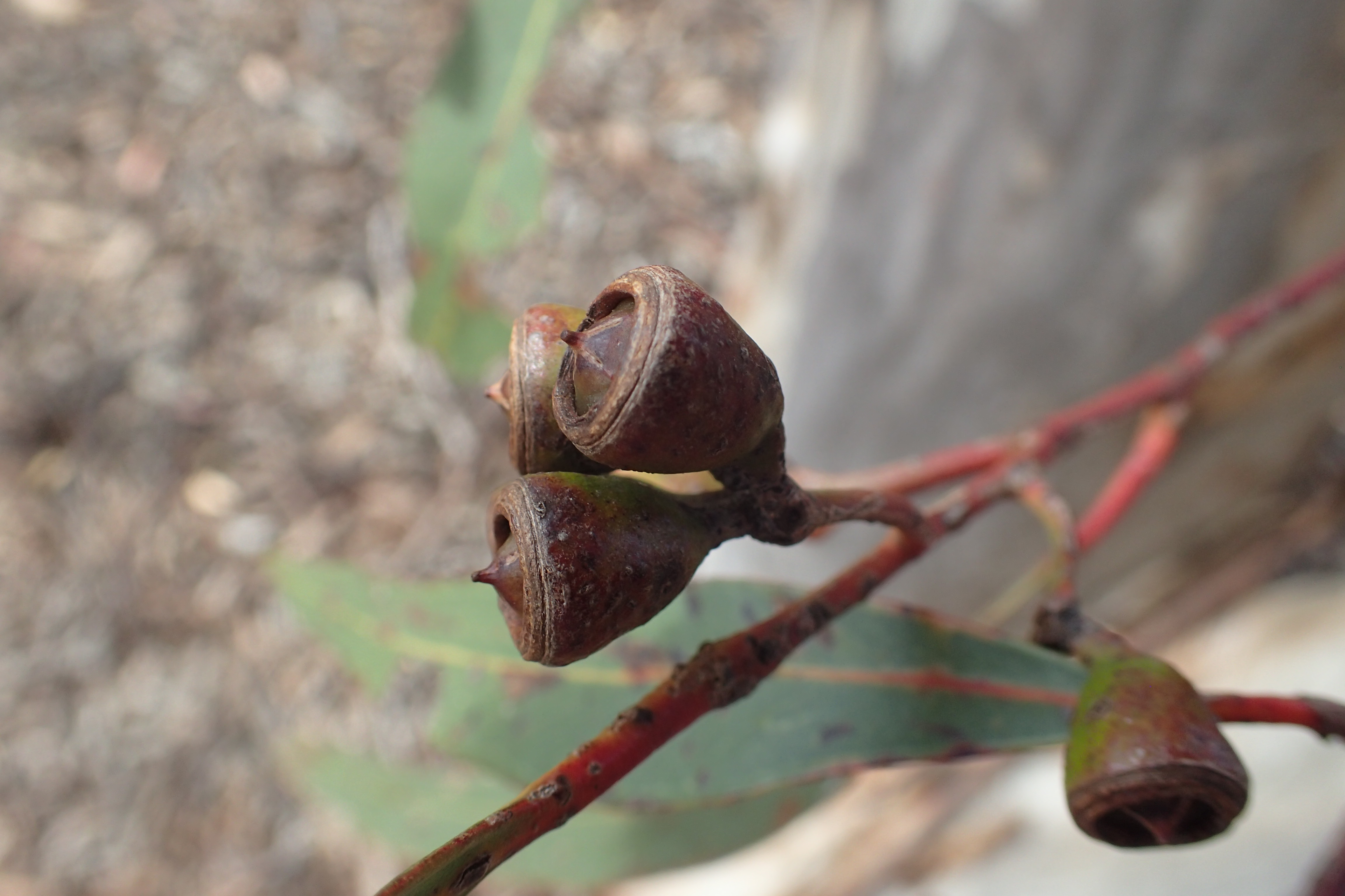 Fruit of Eucalyptus astringens in Helms Arboretum, near Esperance, W.A.